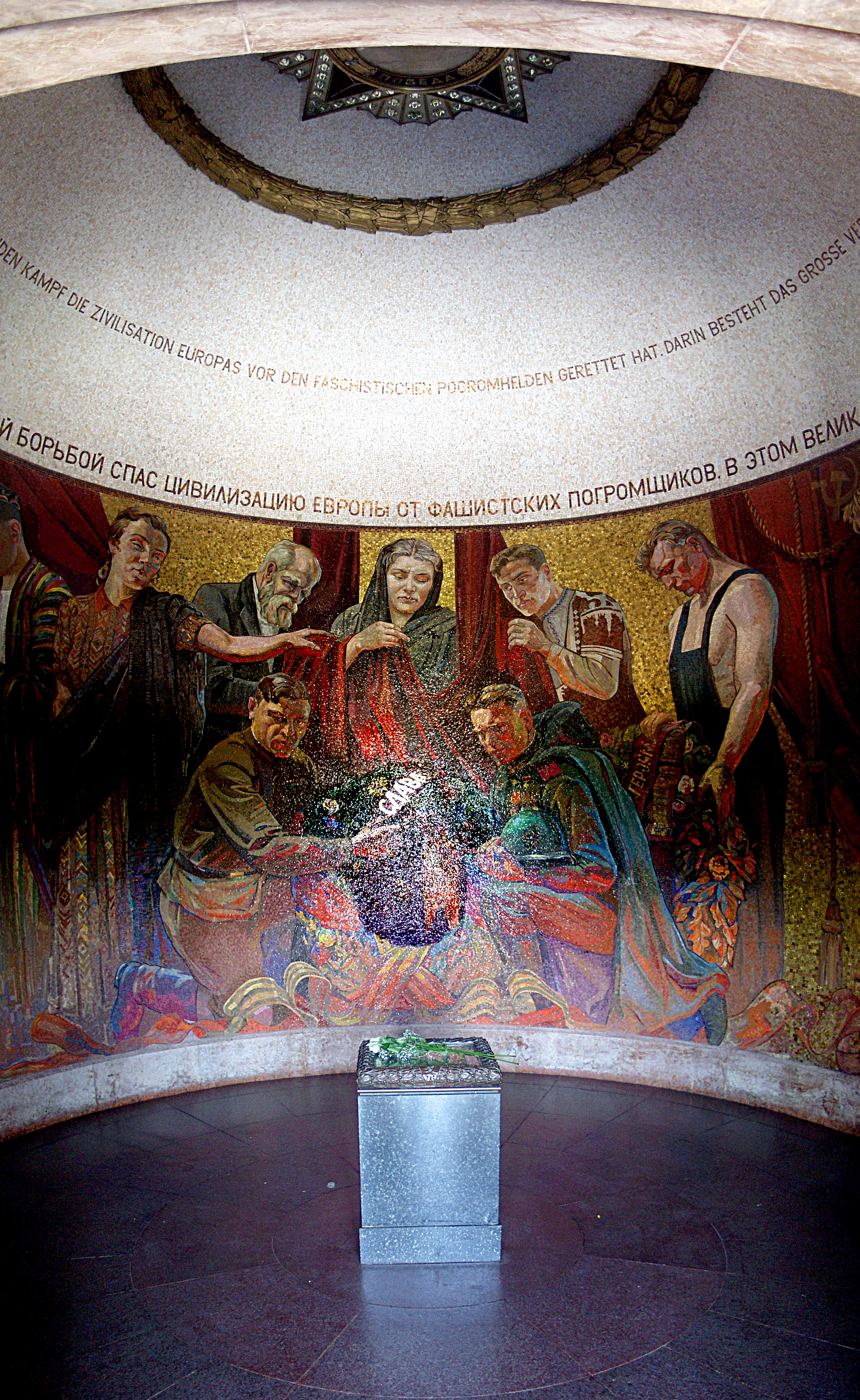 Soviet Cenotaph in Treptower Park. Mosaic in the room under the statue